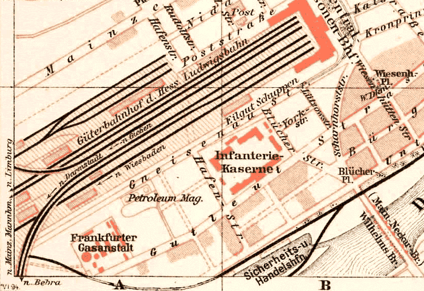 Frankfurt city map, 1893: Gutleutviertel, yet unfinished residential and commercial quarter between the new central railway station and the Main river.